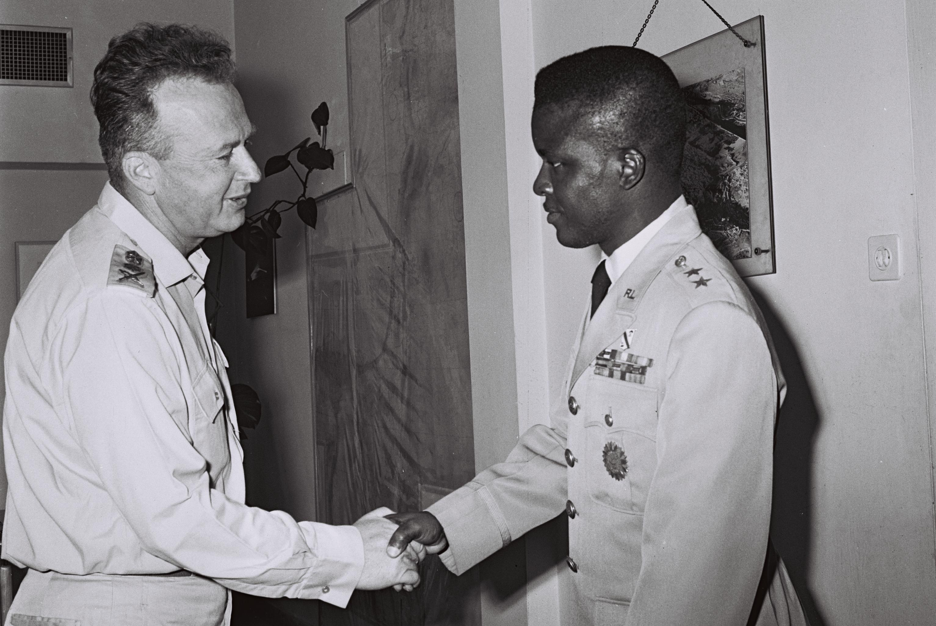 LIBERIAN CHIEF OF STAFF, GENERAL GEORGE WASHINGTON CALLING ON CHIEF OF STAFF RAV ALLUF YITZHAK RABIN AT HIS OFFICE IN TEL AVIV.